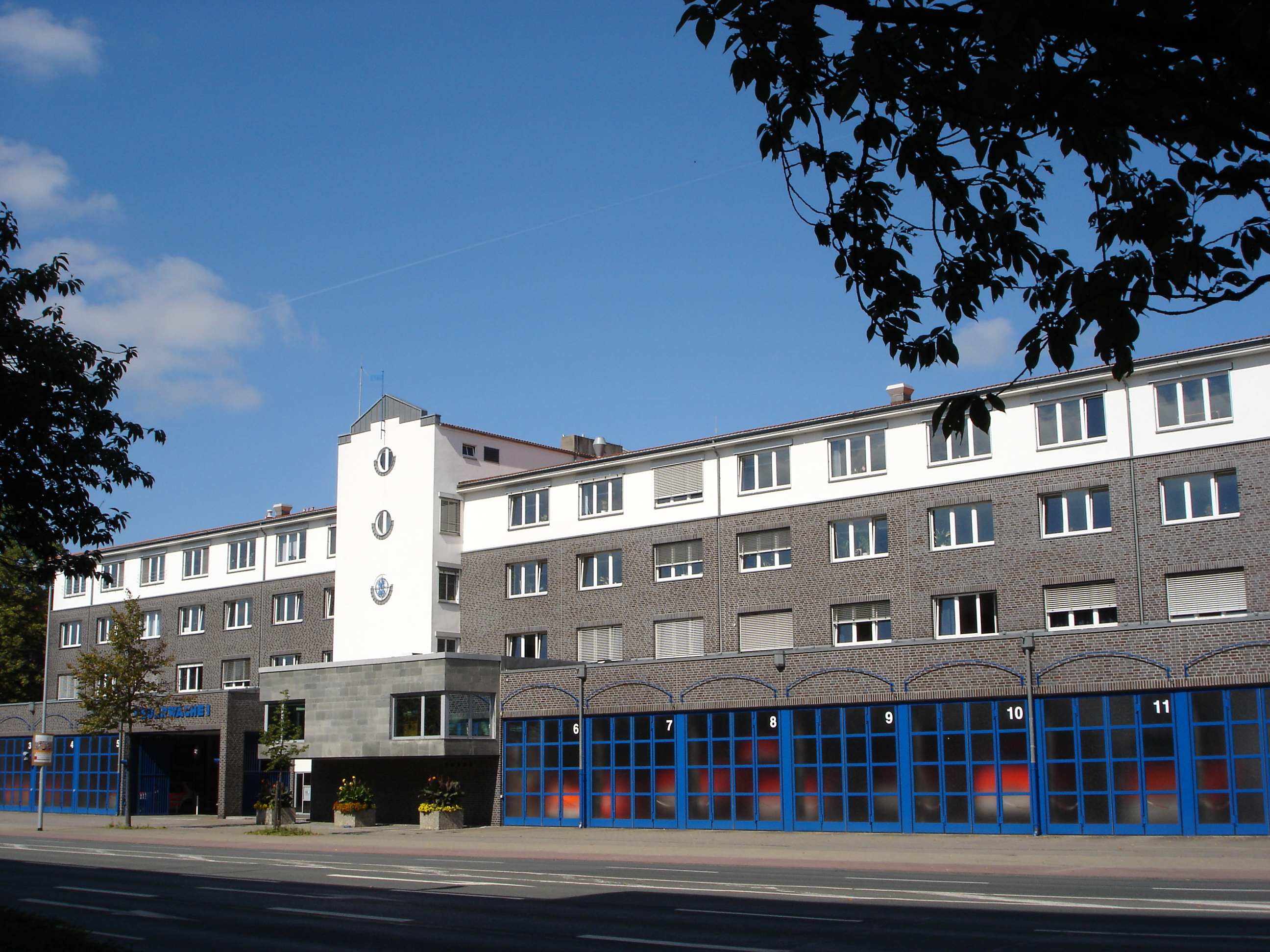 Fire station I (main station) in Münster, Westphalia, Germany